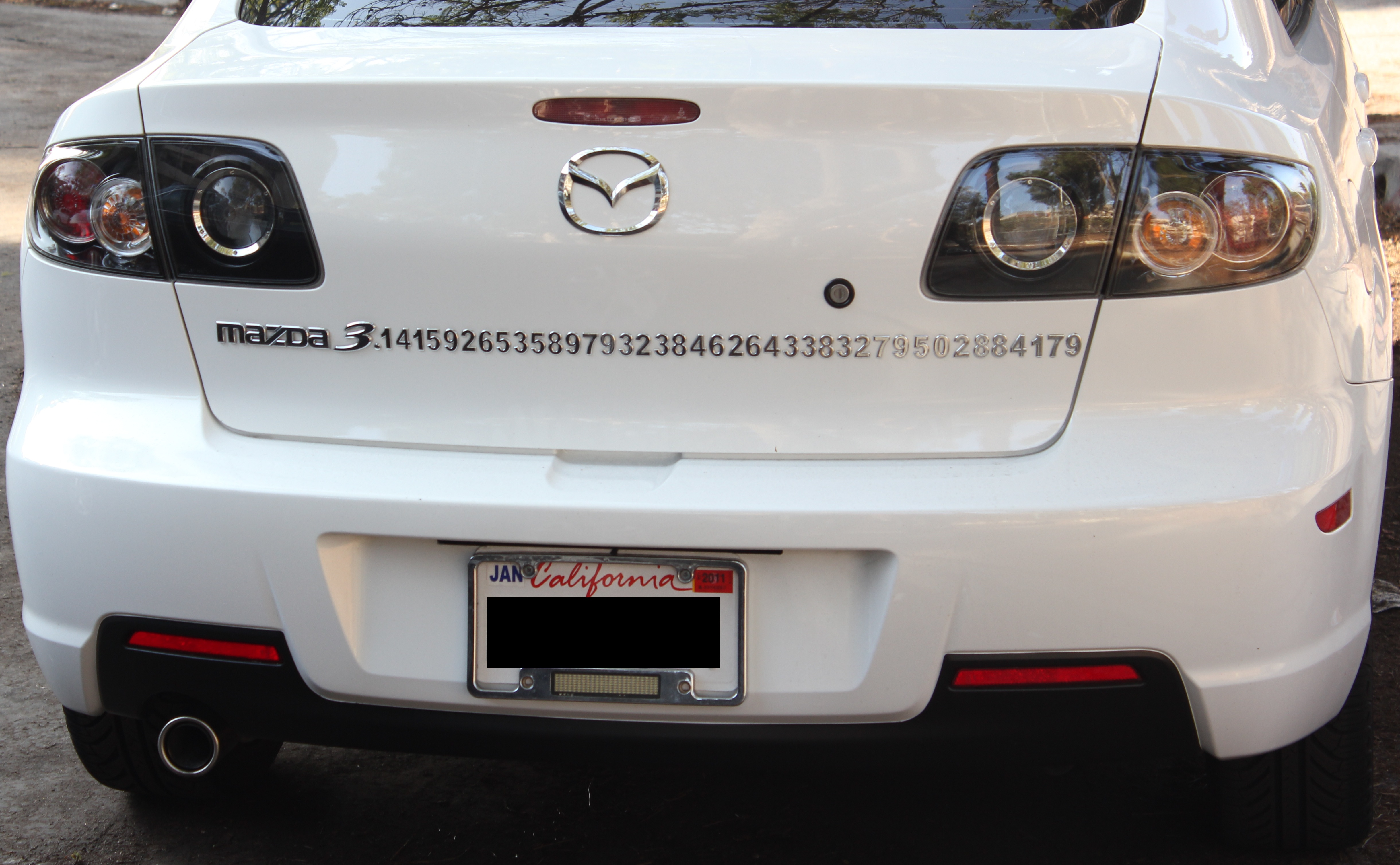 A modified vehicle with the number "pi" extending out from the "Mazda 3" logo. This custom modification exemplifies the mathematical appreciation that is stereotypical of "geeks."